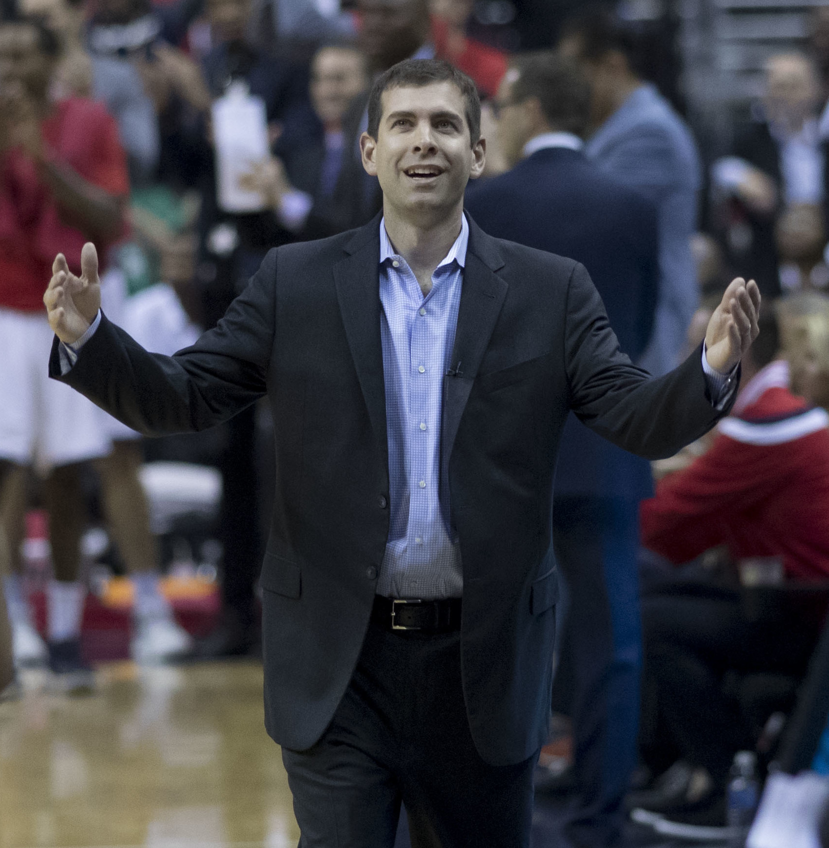 Celtics at Wizards 5/4/17